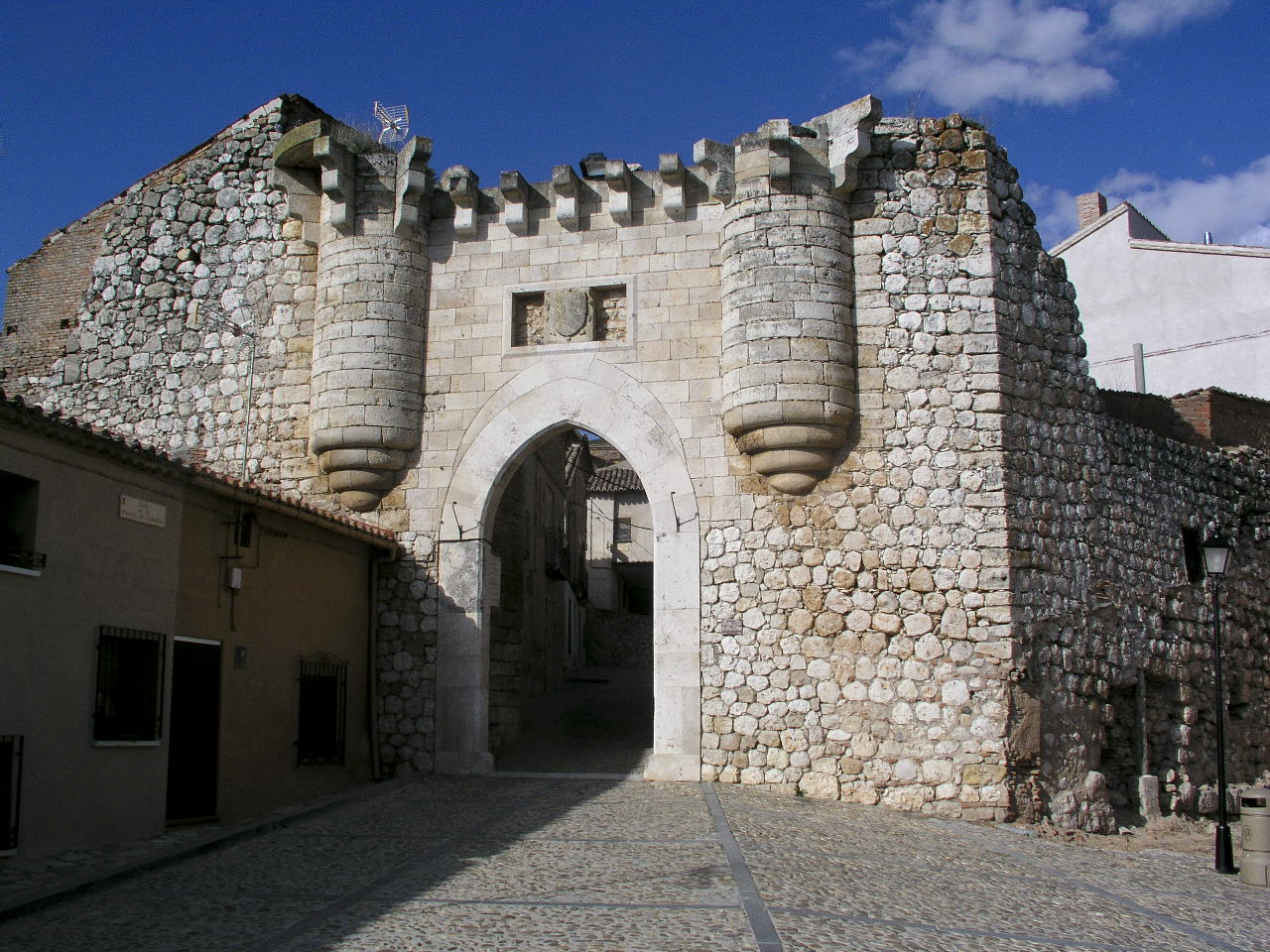 Portal of Saint Mary, Hita, Guadalajara, Spain.